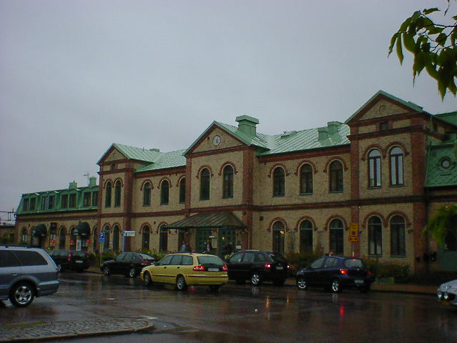 Station